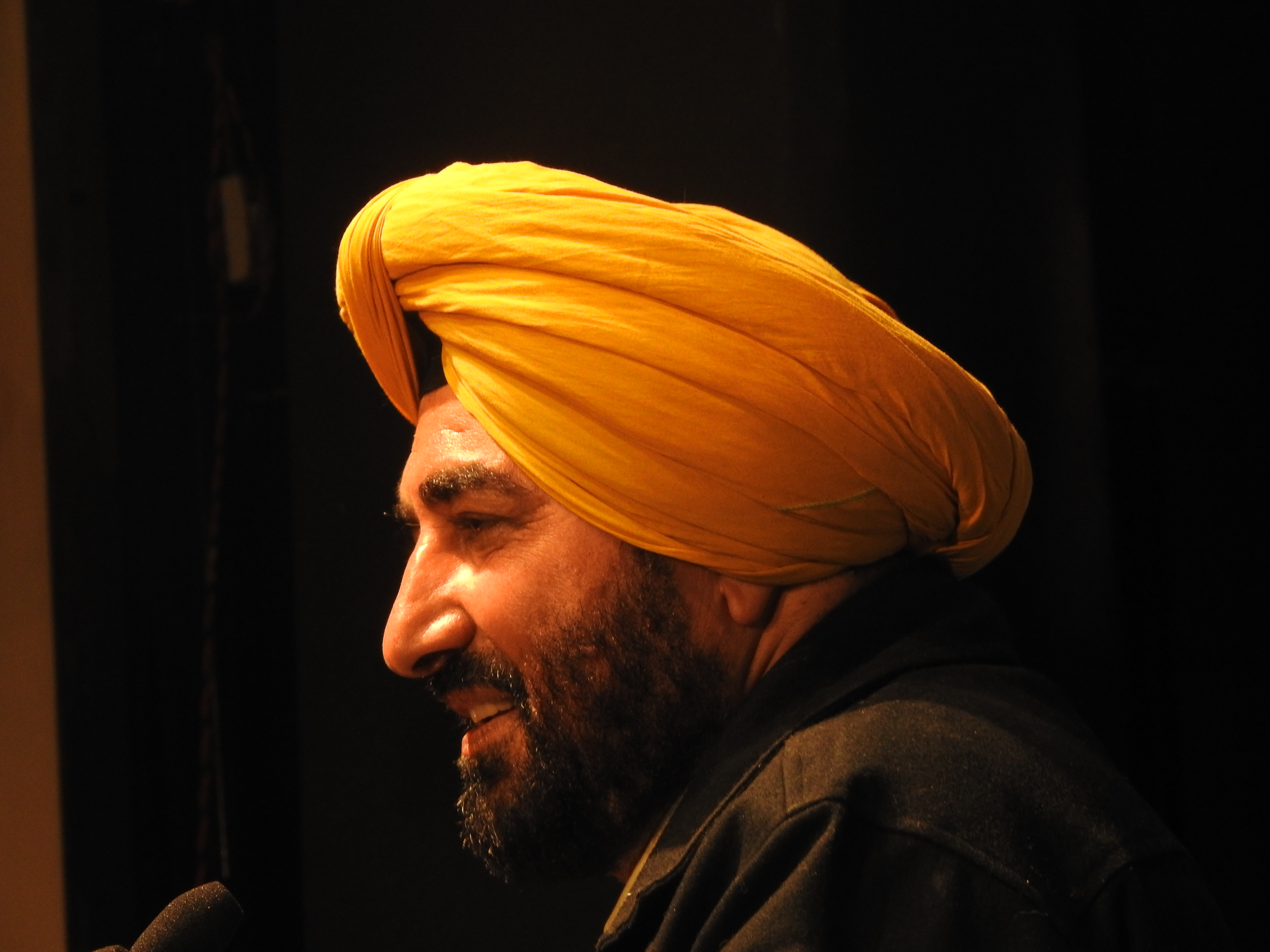 Punjabi language Poets' Meet is an event organised by Punjabi Literray Academy , Delhi annually on occasion of Republic Day (India) . It is part of series of celebrations on this day . Similar event is organised on 15 August , the Independence day of Indian Nation .